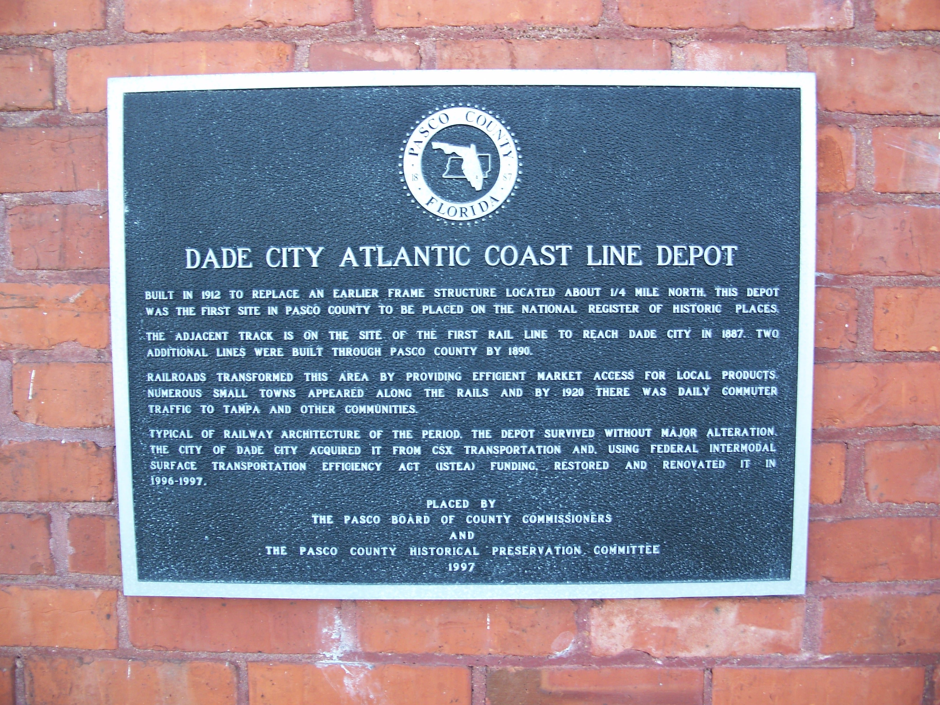 Historic marker on Atlantic Coast Line Railroad Depot, in Dade City, Florida